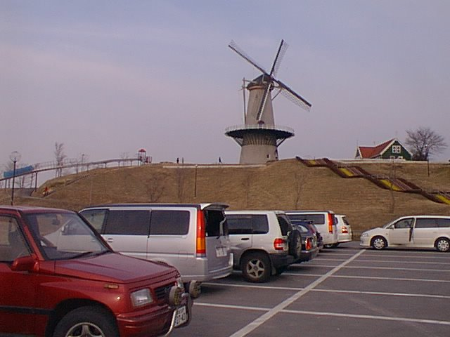 Naganuma Futopia Park in Tome City, Miyagi Prefecture, Japan